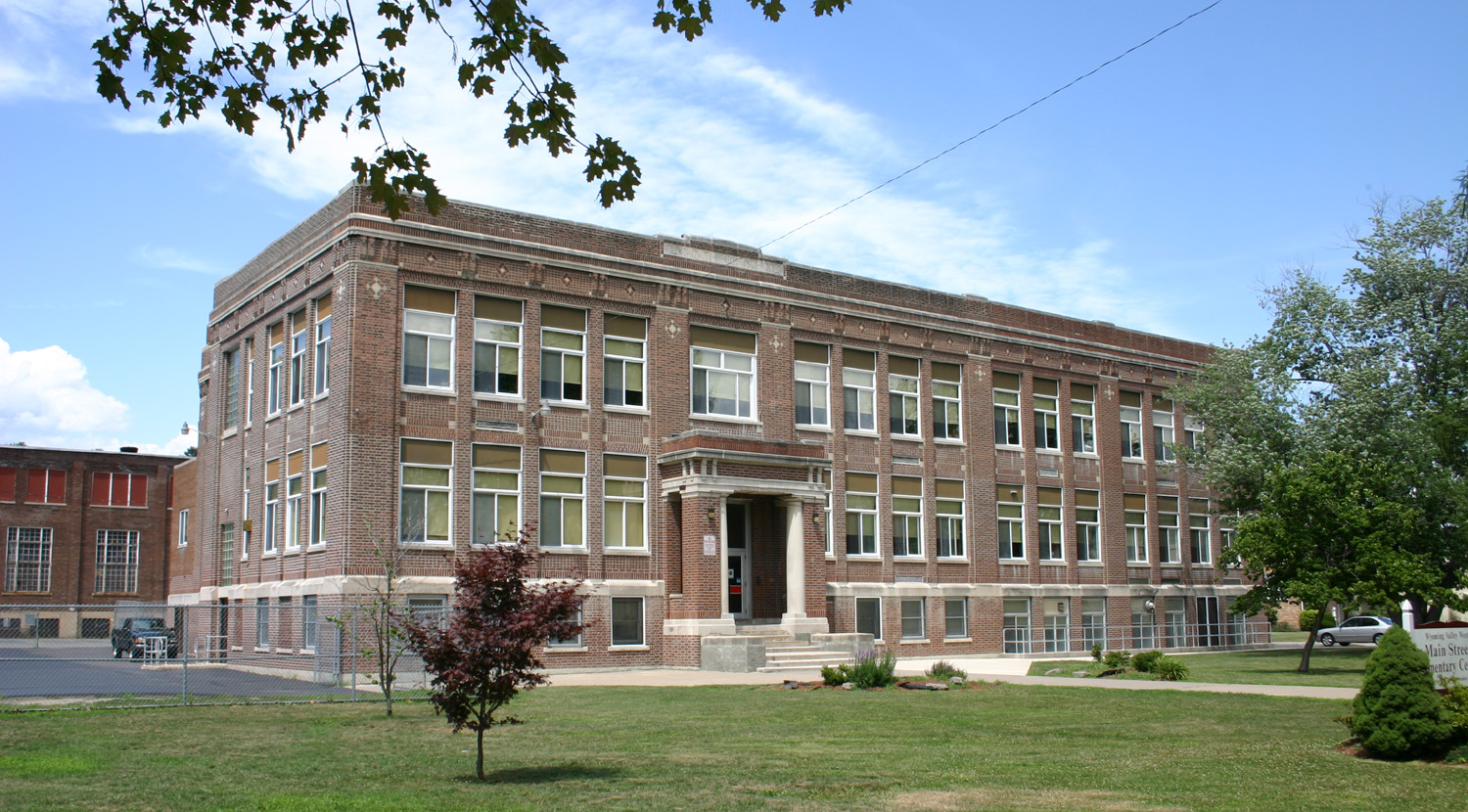 The third high school building that was built in Plymouth, Pennsylvania. Photographed in 2007.